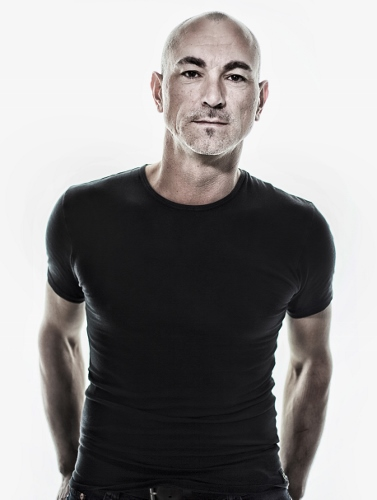 Portrait photograph of Robert Miles